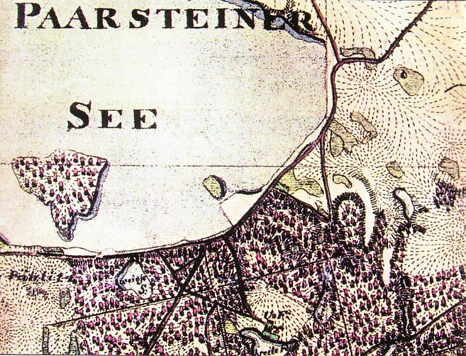 Parsteiner See, historical map from 1842 (part). The map shows todays peninsula Pehlitzwerder as former isle. The Parsteiner See is a finger lake (proglacial lake) in Germany, Brandenburg, District Barnim, and covers 10,03 km².